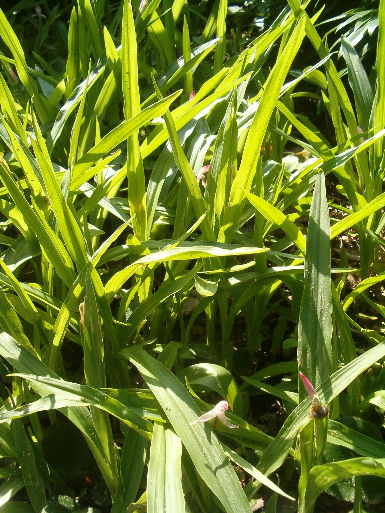 At Botanical Gardens Berlin-Dahlem Species Roscoea scillifolia